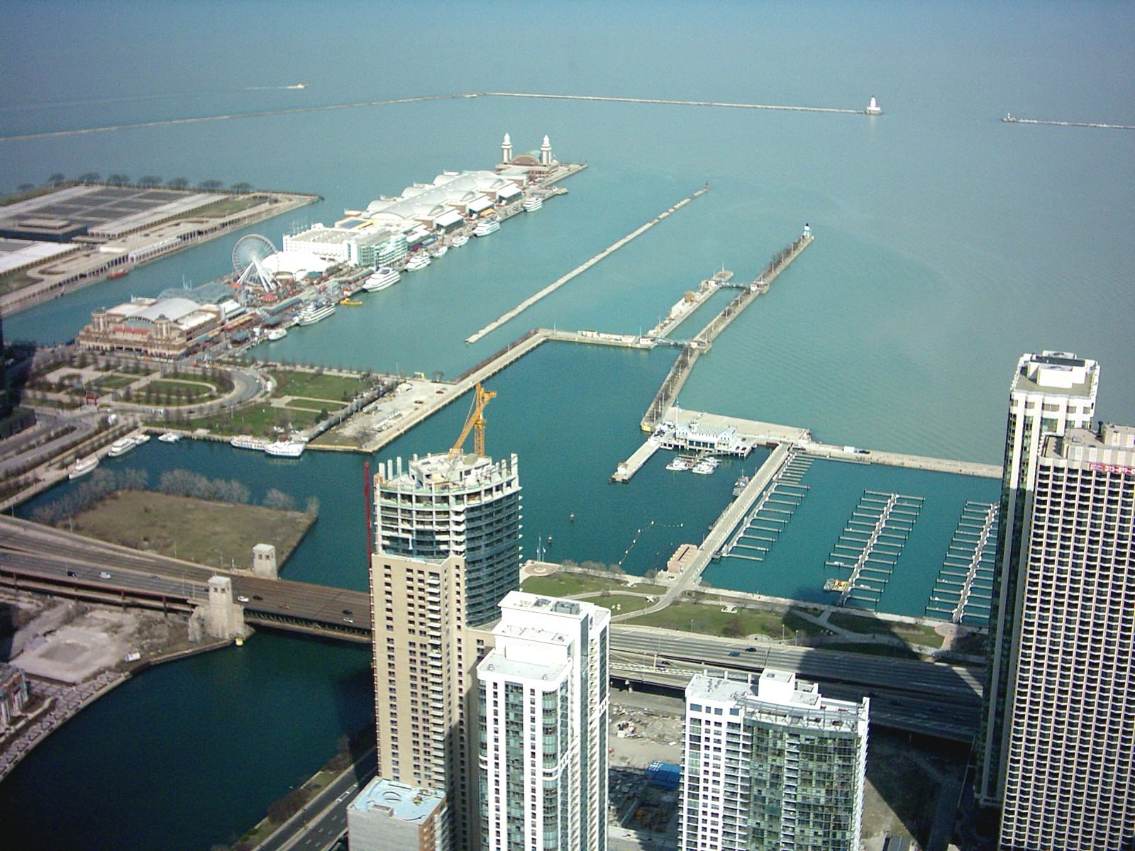 Navy Pier in Chicago, view from Aon Building.